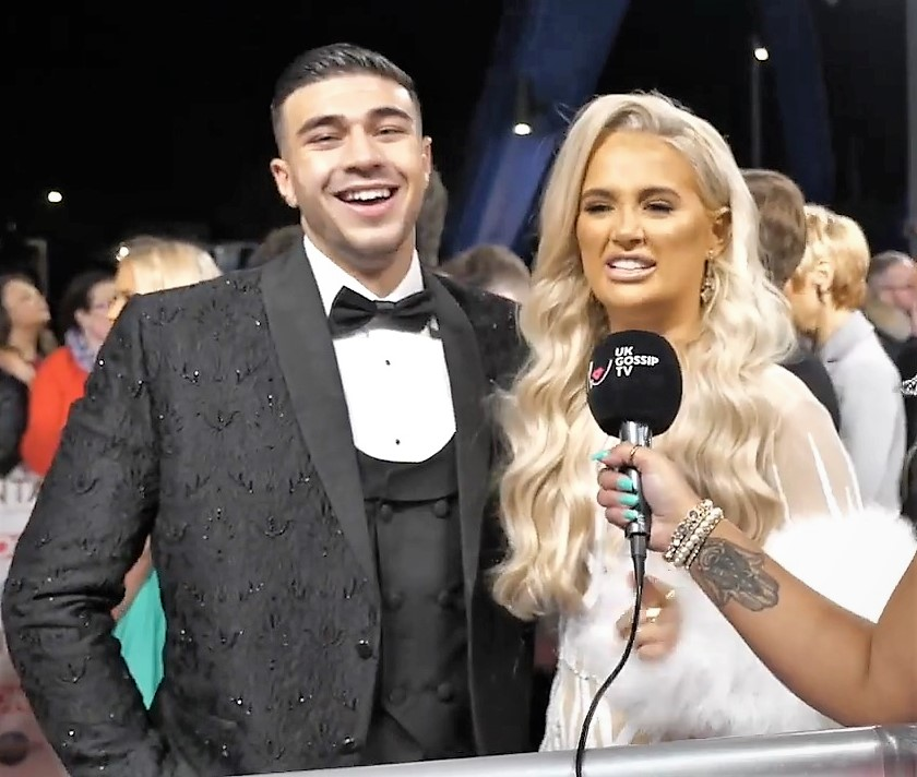 UK boxer Tommy Fury and reality television star Molly Mae Hague interviewed by UKGossip TV at the National Television Awards. Highlights of the National Television awards 2020 with Jourds @Jourds_ had the pleasure of gracing the NTA's red carpet at the o2 arena, inteviewing our much loved tv reality stars! Filmed and edited by @Jojobami